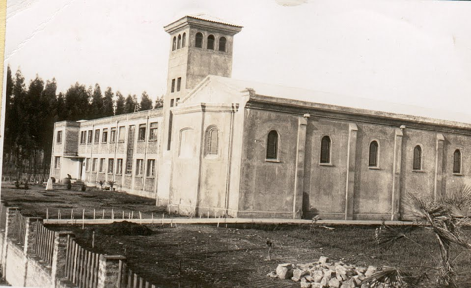 Facade of the IRFE, Santa Cruz, Chile, in the 1940s.